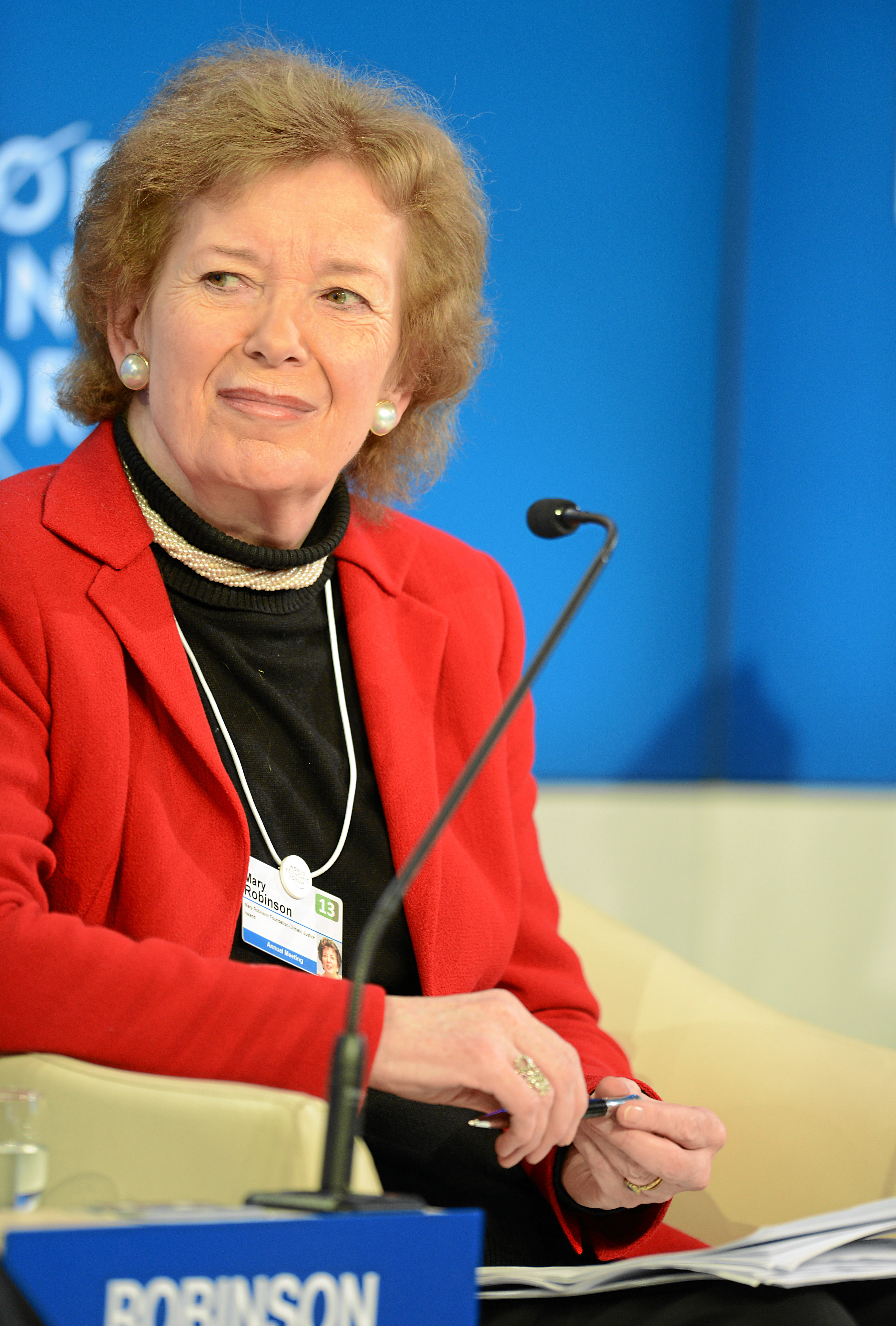 DAVOS/SWITZERLAND, 26JAN13 - Mary Robinson, President, Mary Robinson Foundation-Climate Justice, Ireland; Global Agenda Council on Human Rights speaks during the Session 'The Moral Economy: From Social Contract to Social Covenant' at the Annual Meeting 2013 of the World Economic Forum in Davos, Switzerland, January 26, 2013.. . Copyright by World Economic Forum. . Michael Wuertenberg